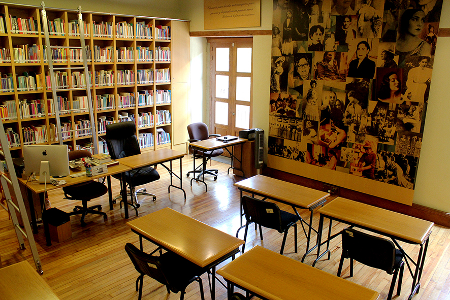 Centro de Documentación del Museo de la Mujer